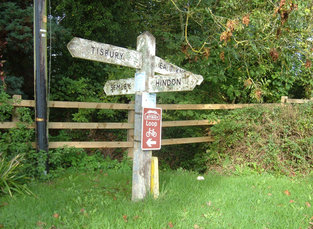 Signpost at Kinghay An old signpost at the crossroads. The brown sign shows the way for the National Byway Loop a 4,000-mile series of cycle routes in various parts of the country maps for which are available on-line - at a price.